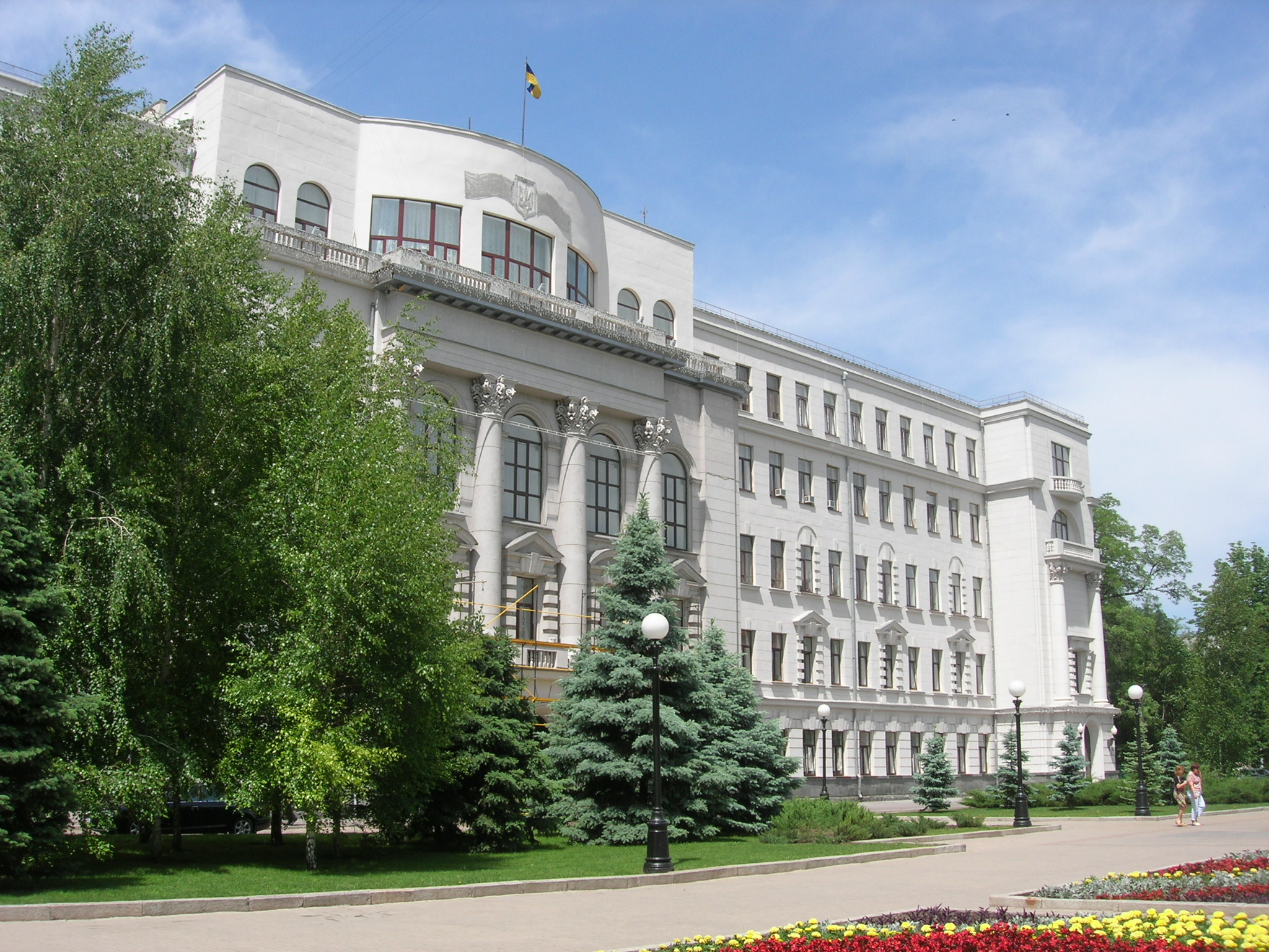 House of Dnipropetrovsk Regional Council (Kirov, 2)